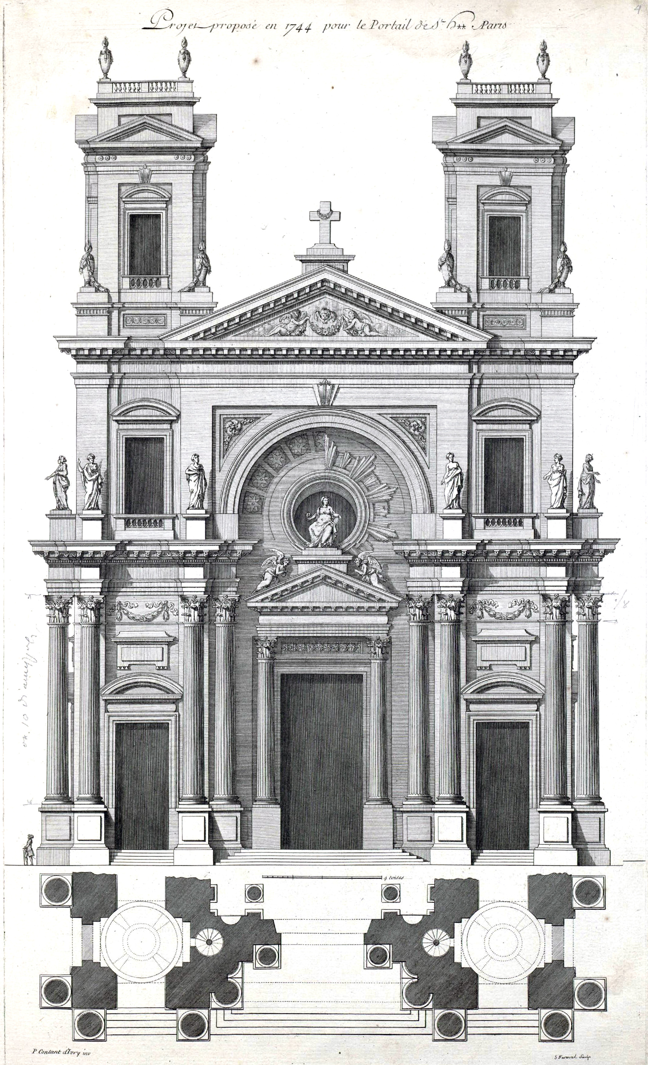 Project proposed for the principal facade of the Church of St Eustace in Paris